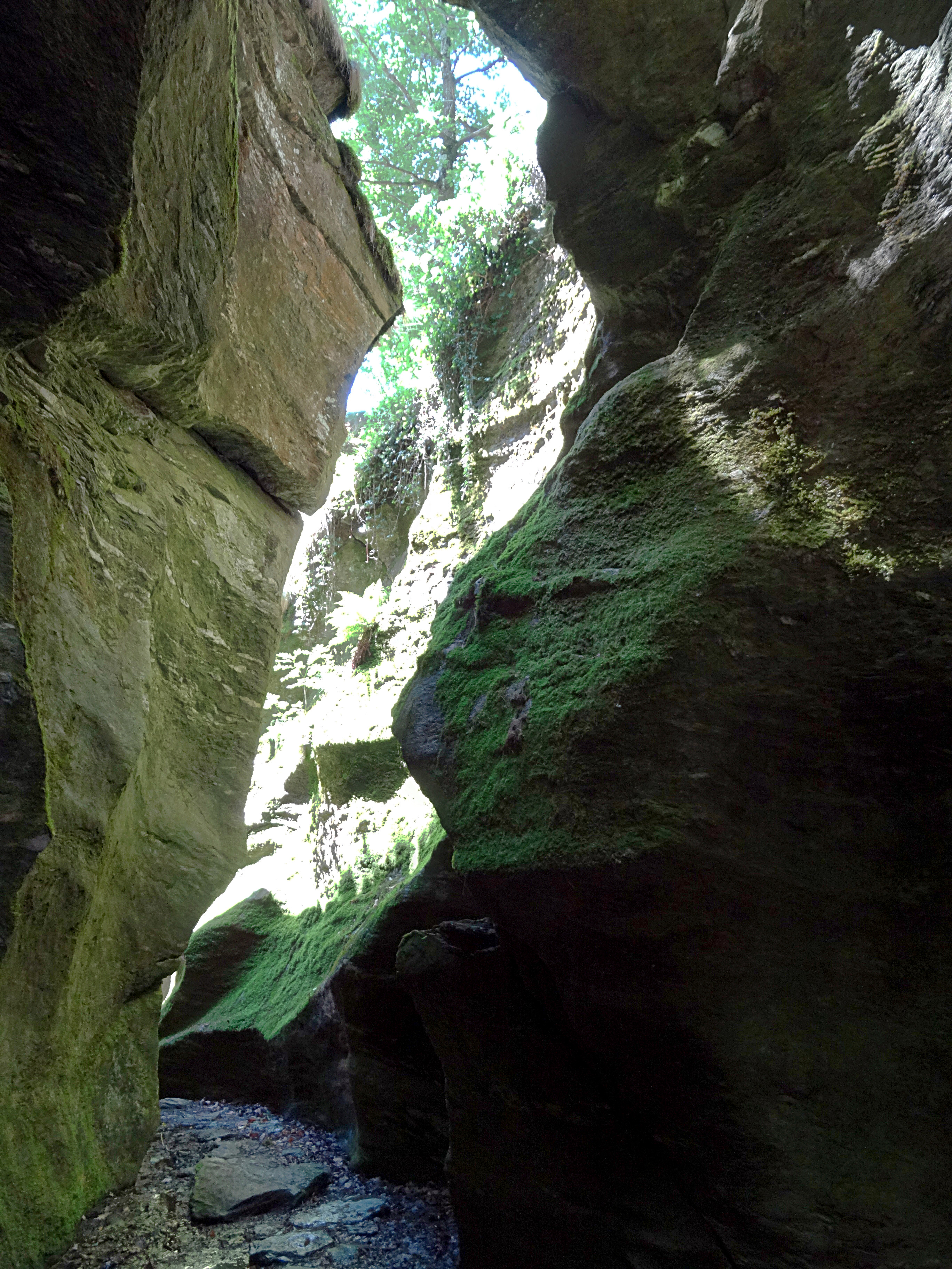 the green northern gorge of Uriezzo